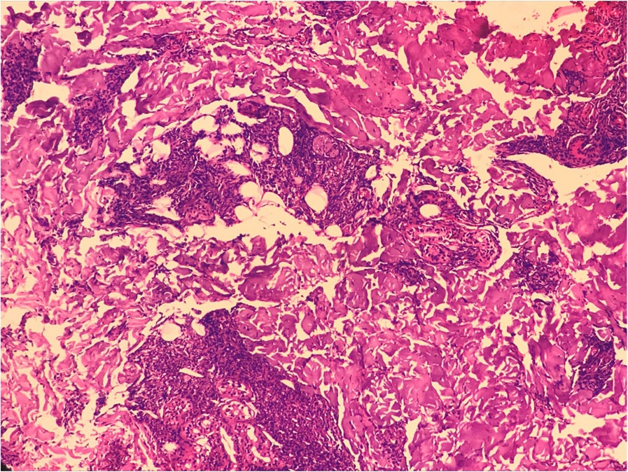 Histopathology of leprosy, showing patchy infiltration by epithelioid cells and lymphoid population along with foam cells and neutrophils. The infiltration was mainly limited to perineural and around the sweat glands and arrector pili muscles. (Hematoxylin stain; × 100)